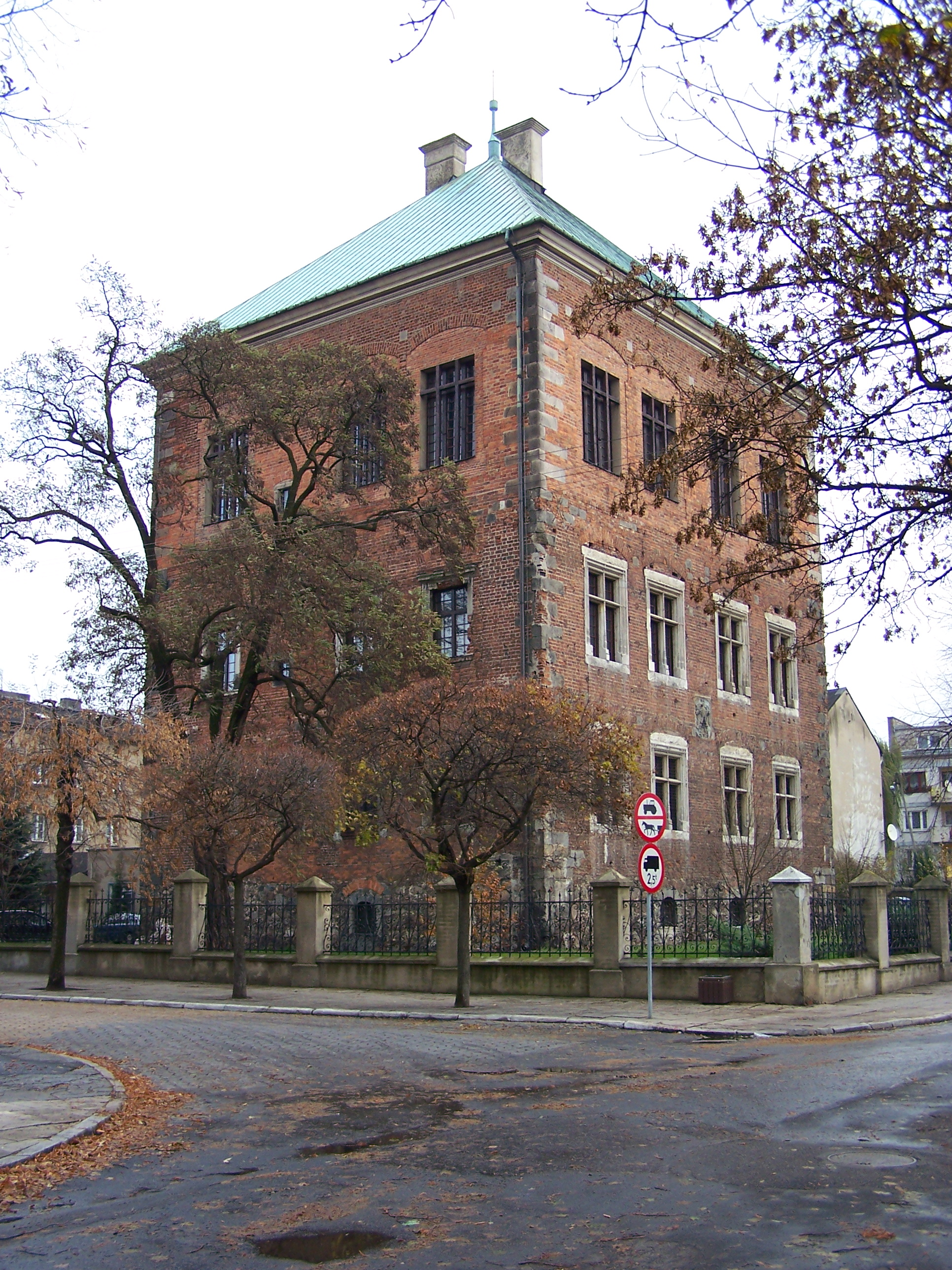 Castle in Piotrków Trybunalski (Poland).